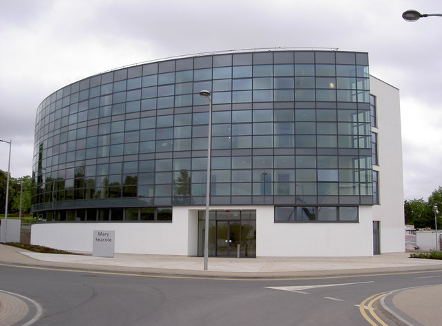 Mary Seacole Building, Brunel University West London Photograph taken on the same day as Her Majesty The Queen, Queen Elizabeth II opened and named this building.